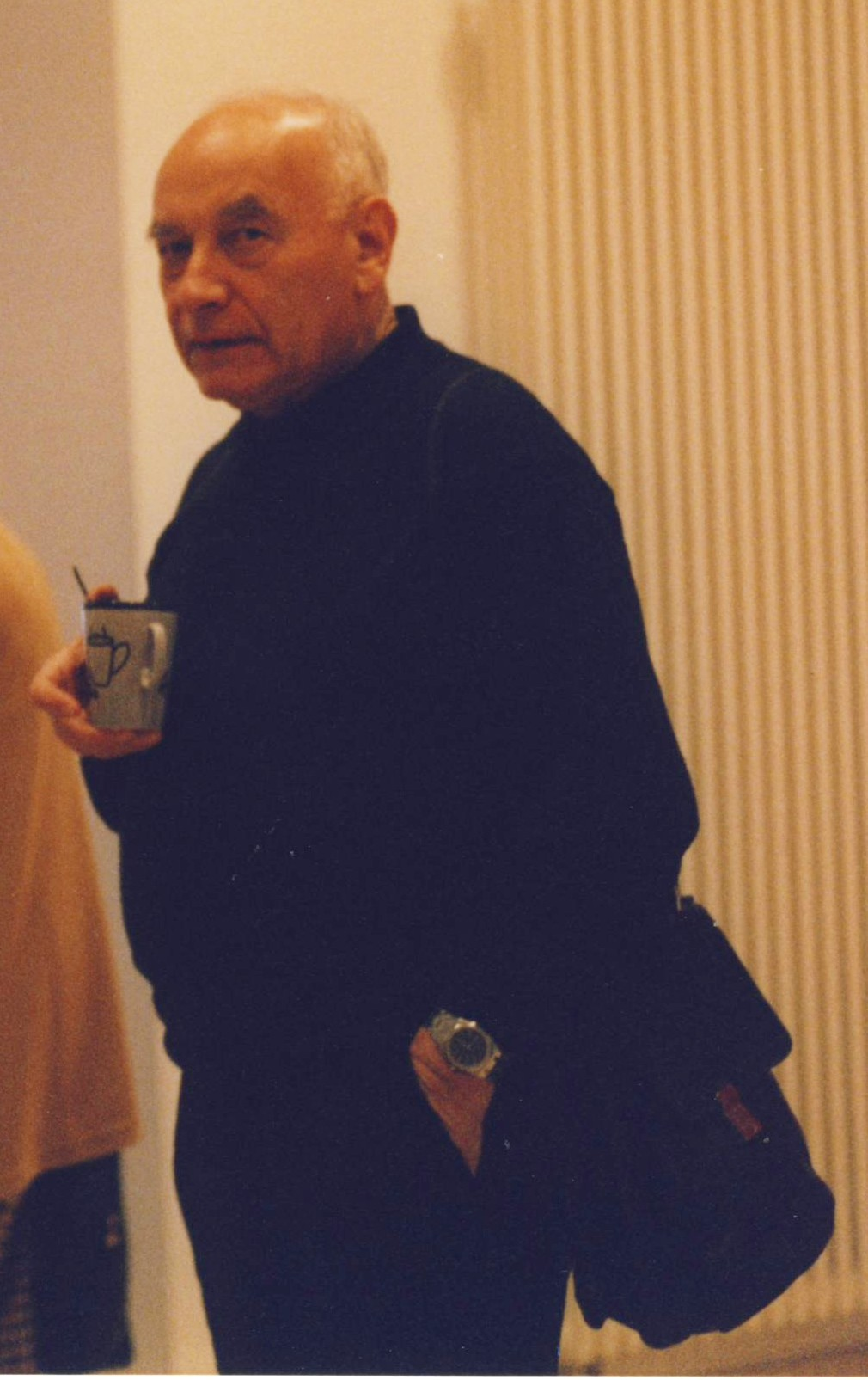 Eugen Gomringer at Kunsthalle Villa Kobe in Halle (Saale)